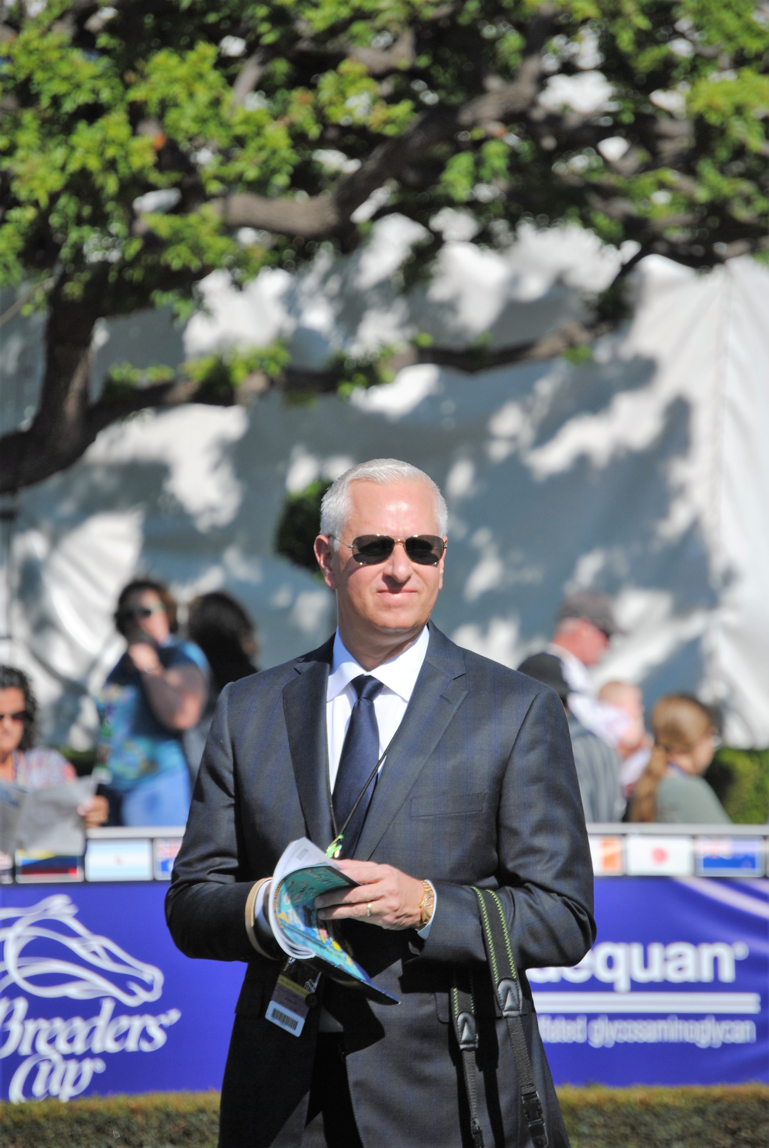 Todd Pletcher at the 2016 Breeders' Cup